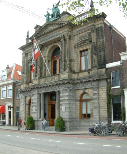 Entrance of the Teylers Museum in Haarlem